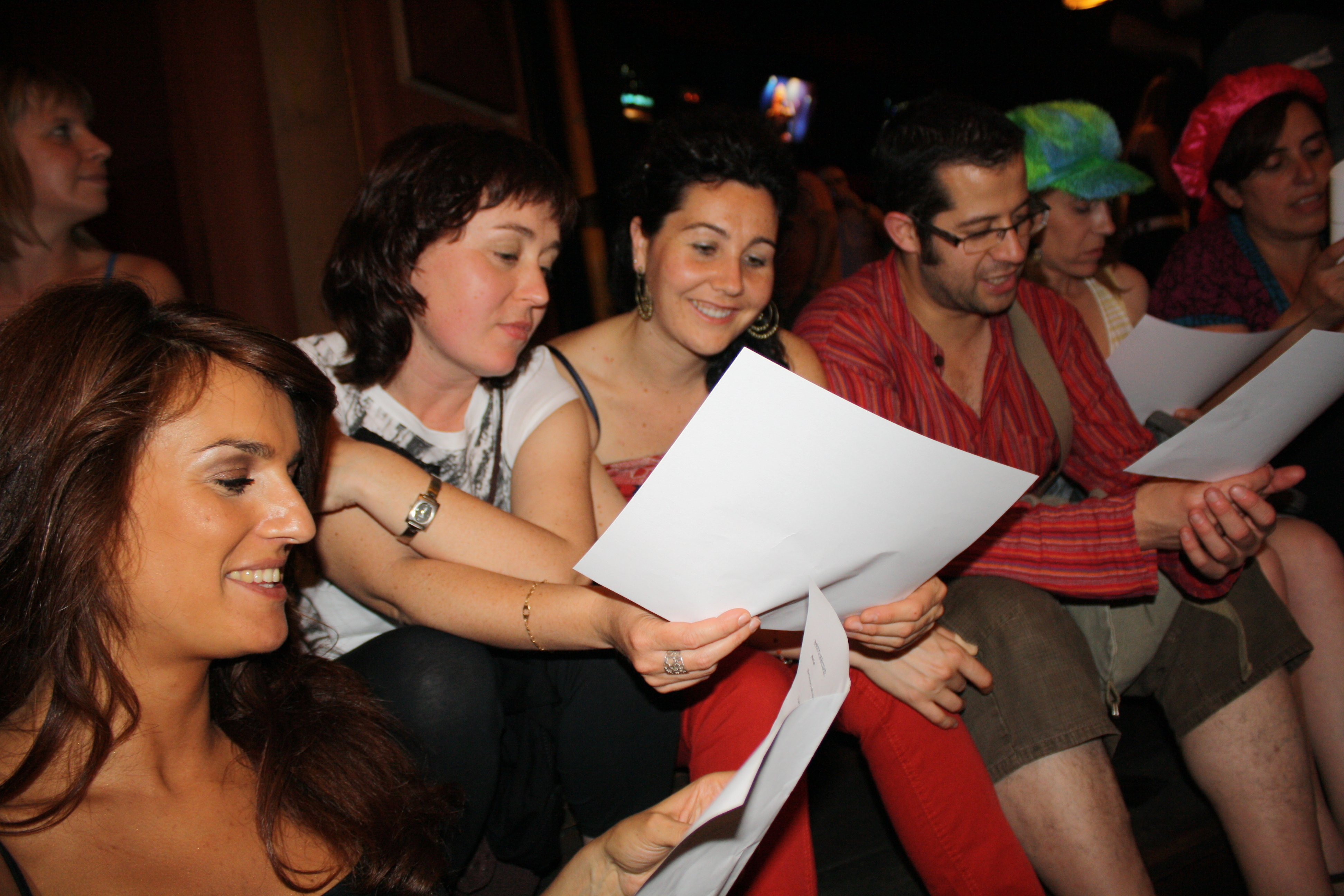 Student party in Gabriel Aresti euskaltegia.